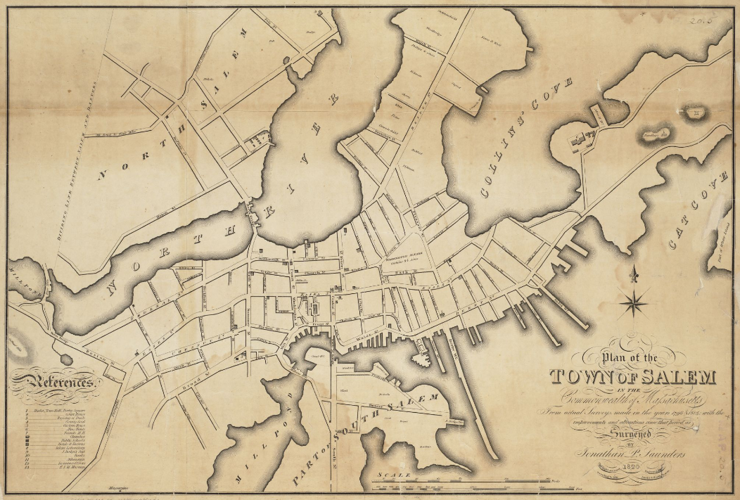 Plan of the town of Salem in the commonwealth of Massachusetts, from actual surveys, made in the years 1796 & 1804; with the improvements and alterations since that period as surveyed